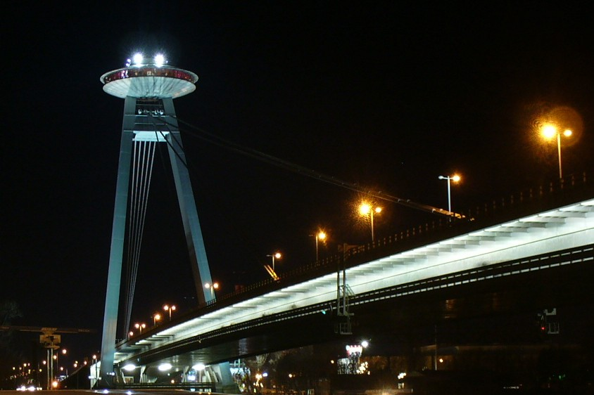 Nový most in Bratislava at night